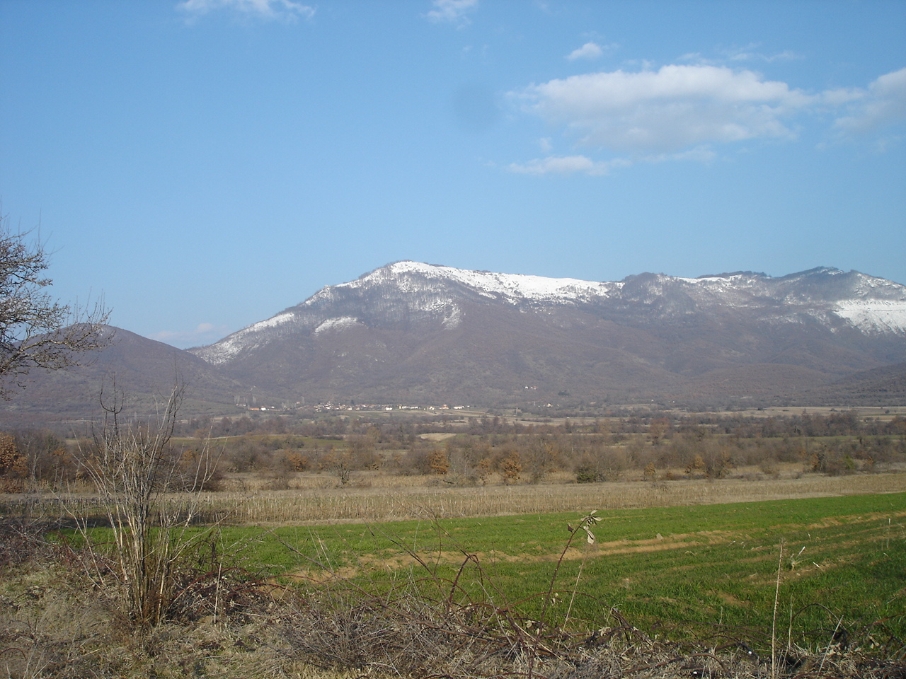 village of Gostirazhni in Dolneni Municipality, near Prilep, Macedonia